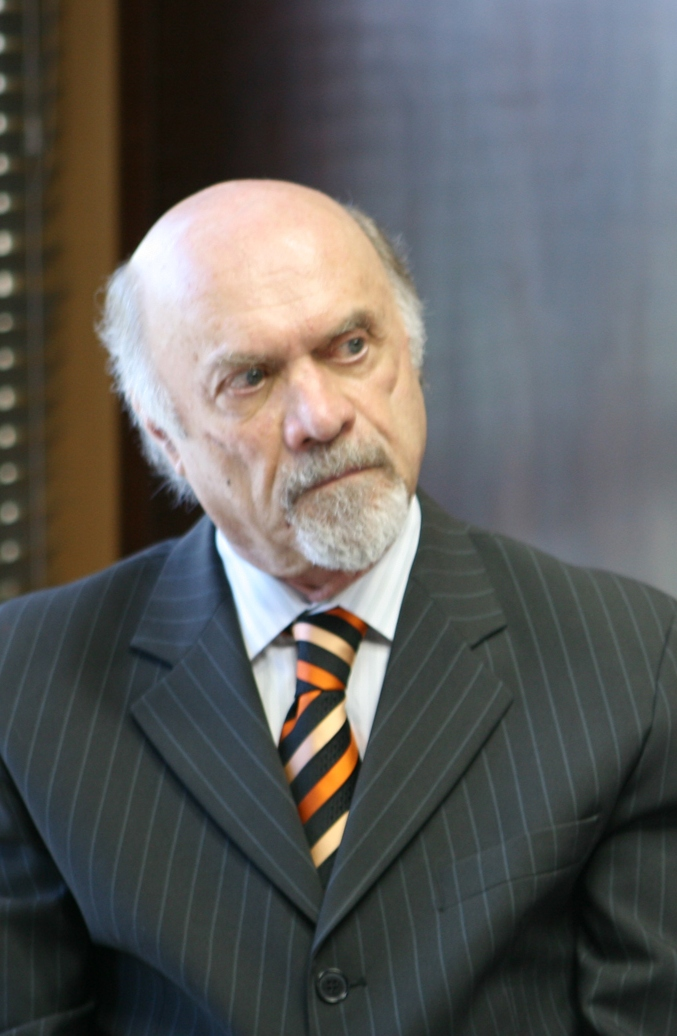 Brazilian conductor Julio Medaglia in a meeting at Ministry of Culture (Brazil), in october 2010